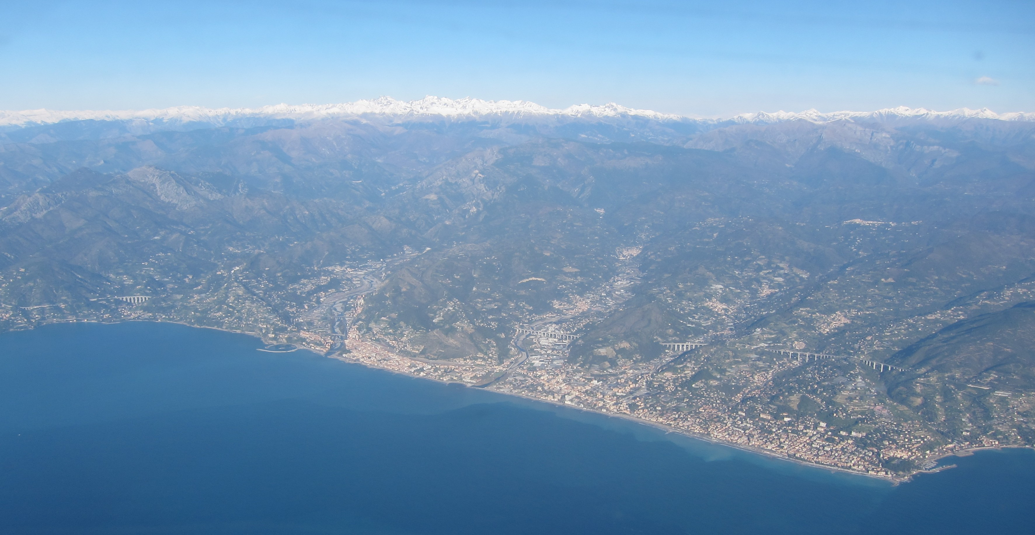 Ventimiglia and Bordighera viewed from the sky